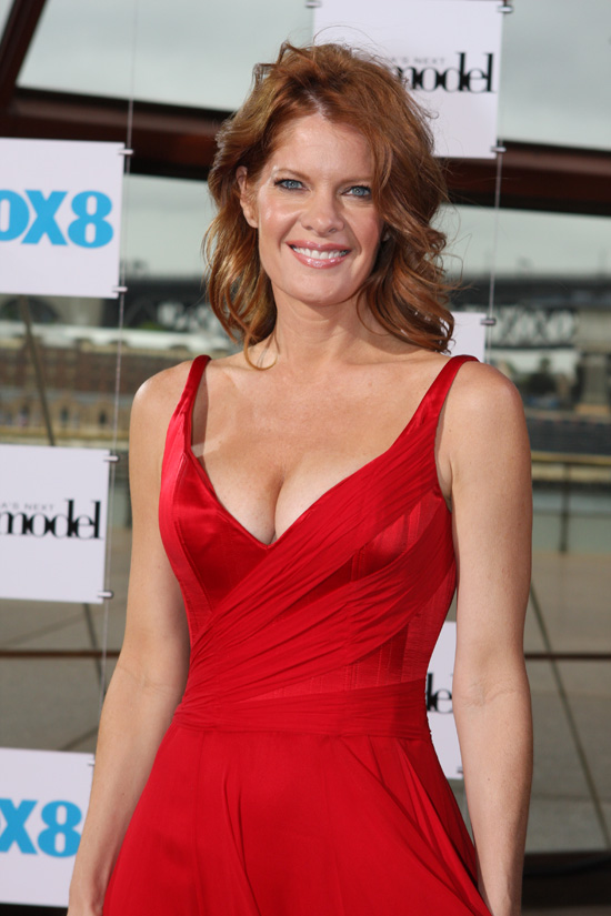 Michelle Stafford at Fox8's Australia's Next Top Model launch event